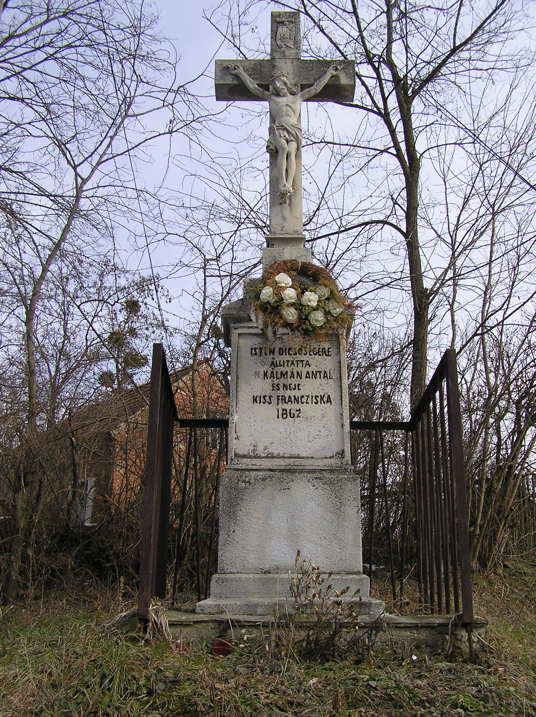 19th century stone cross at the edge of Bocfölde village, Zala county, Western Hungary, Europe.